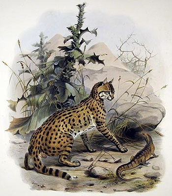 Indian wildcat